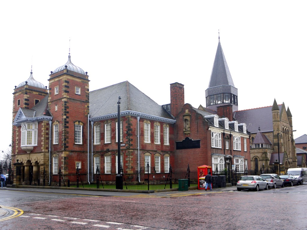 Dame Allan's School, College Street. Dame Allan's School was built in 1883 by R.J. Johnson, a local architect. High up on a gable wall, right-centre, is a niche containing a statue of Dame Eleanor Allan who founded schools in Newcastle in 1705. This building housed the schools until they moved to Fenham in the 1930s and now forms part of Northumbria University St James' Church can be seen to the right 1671360